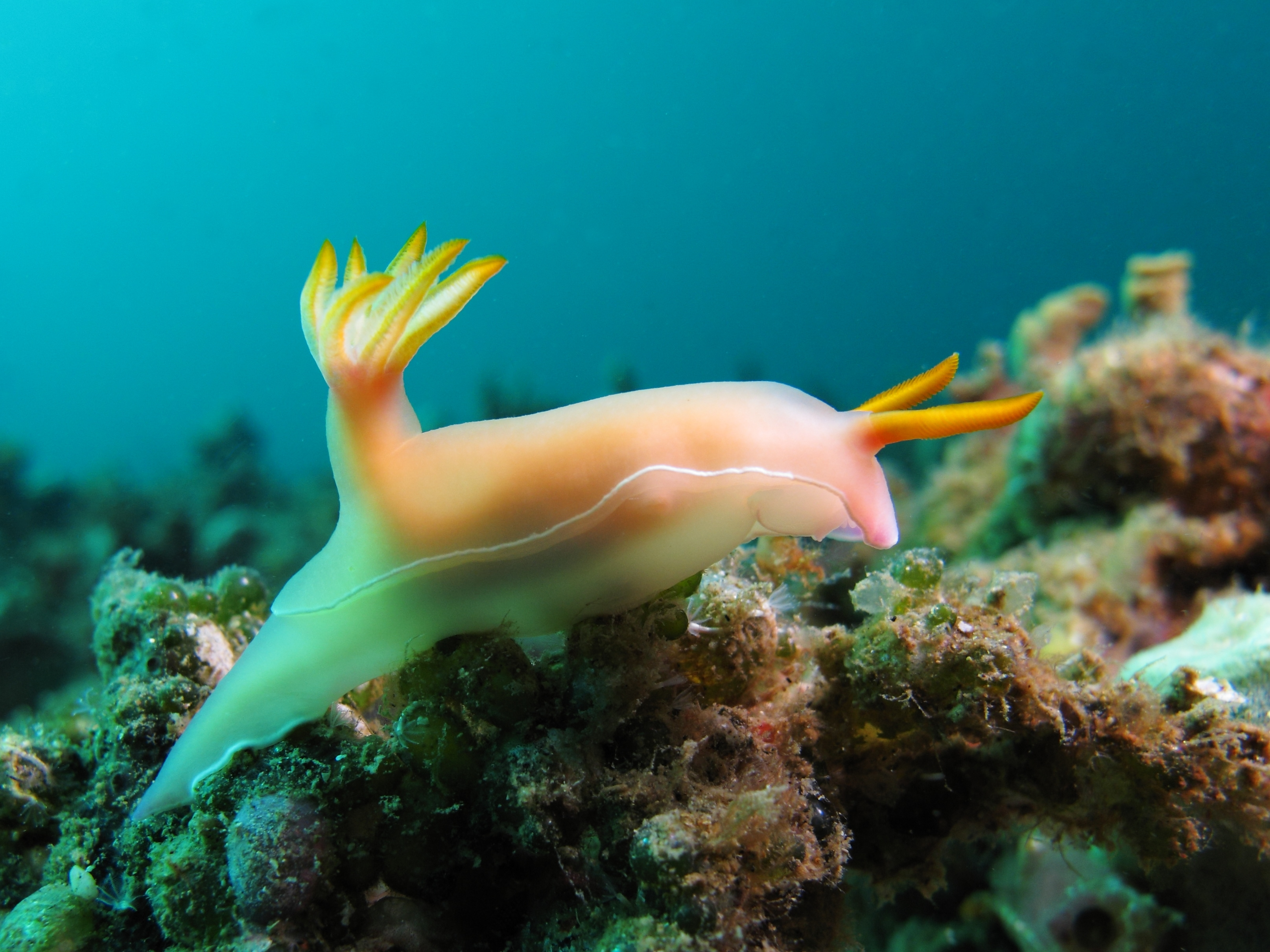 Hypselodoris bullockii from Bima Bay (Sumbawa, Indonesia)